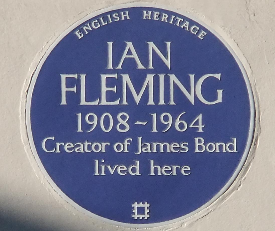 The English Heritage blue plaque for Ian Fleming's previous residence at 22 Ebury Street, London